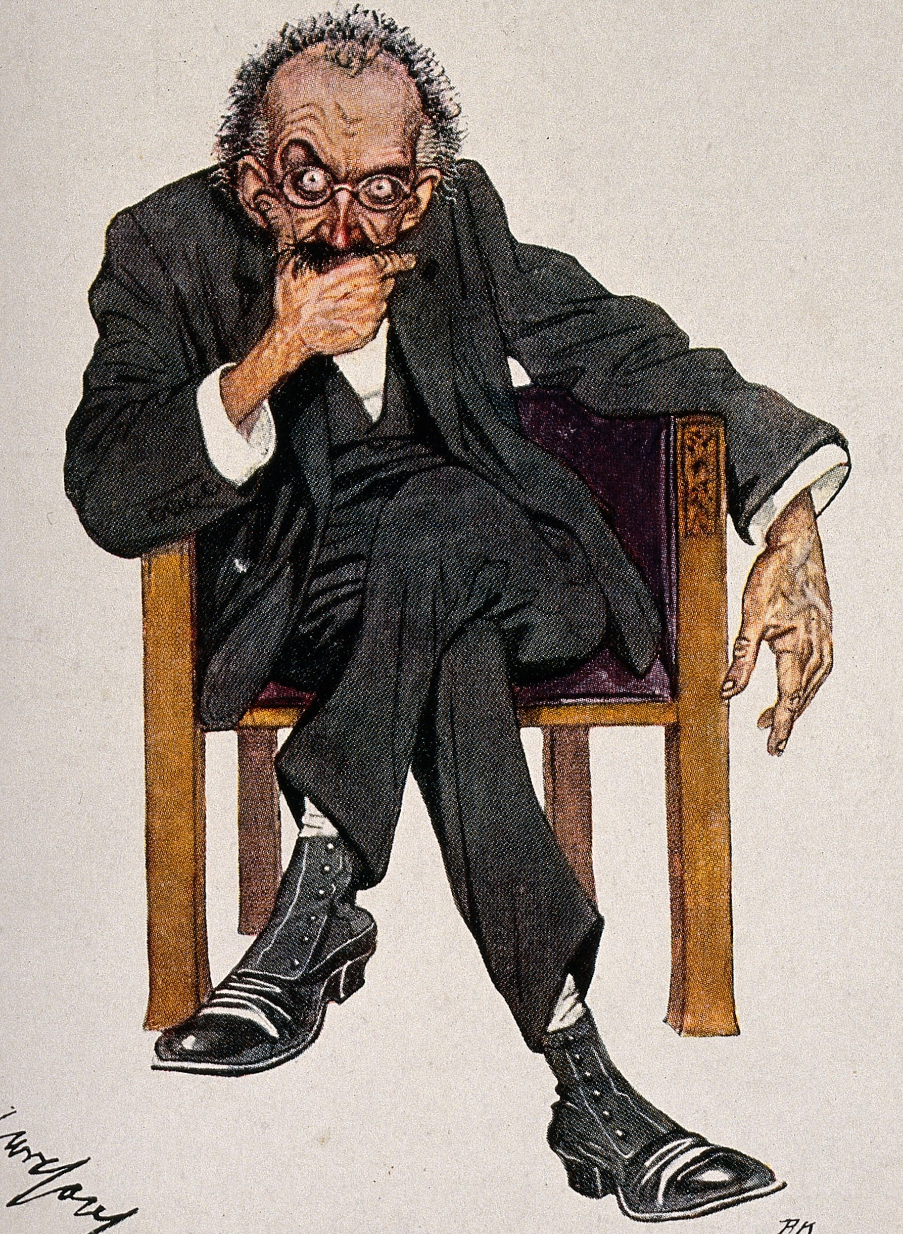 A psychiatrist with intense, bulging eyes. Colour process print by C. Josef, c. 1930. Iconographic Collections Keywords: caricature; PATIENT; psychiatrist; Patients; josef, carl b. 1877; Carl Josef; Psychotherapy; psychoanalyst